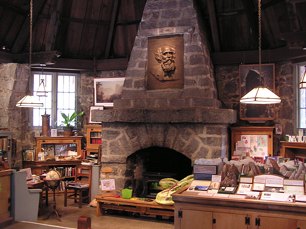 Interior of the LeConte Memorial Lodge in Yosemite National Park, California, United States. A bas-relif of Joseph LeConte can be seen above the fireplace. The library is on the left.